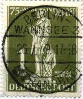 Postmark Strandbad Wannsee on Berlin (West) 1 DM stamp, issue April 1949, Mi40